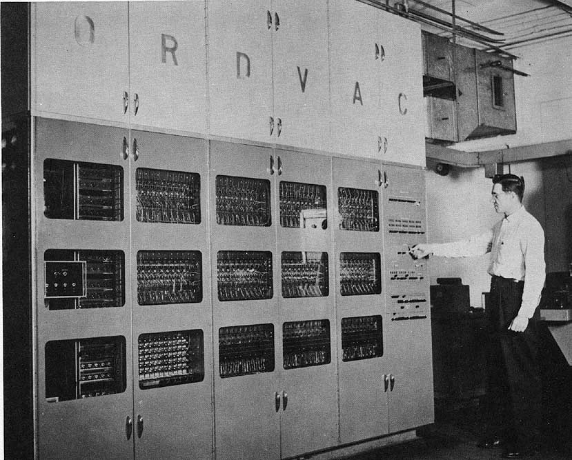 ORDVAC U.S. Army Photo from K. Kempf, "Historical Monograph: Electronic Computers Within the Ordnance Corps"